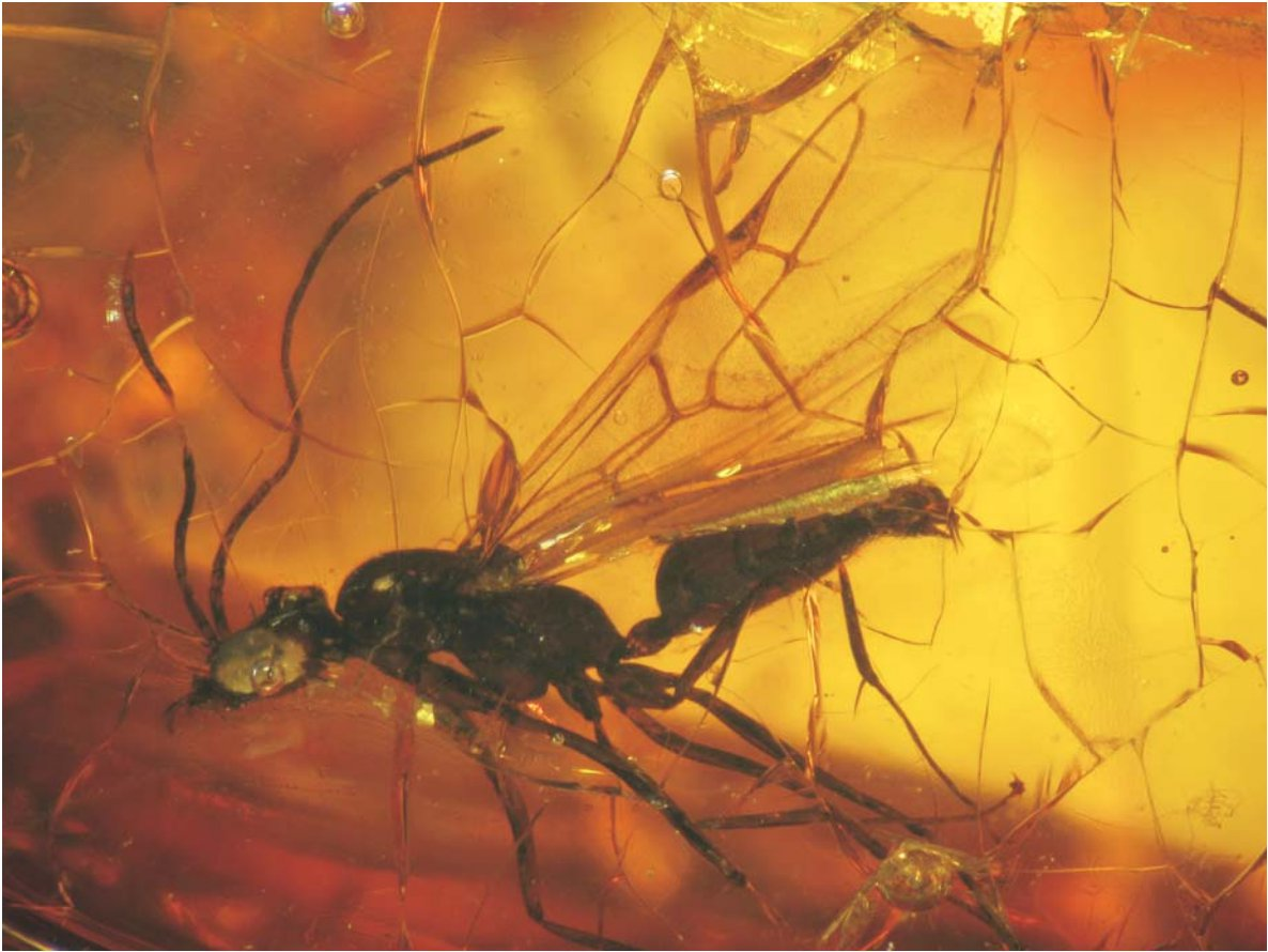 Fig. 1. Dolichoderine ant Usomyrma mirabilis gen. et sp. nov., the holotype male, ZMUC, Bórge Mortensen coll., 28.2.1965, no. 380, from the Danish Amber, late Eocene; body in lateral view. Photograph (A)